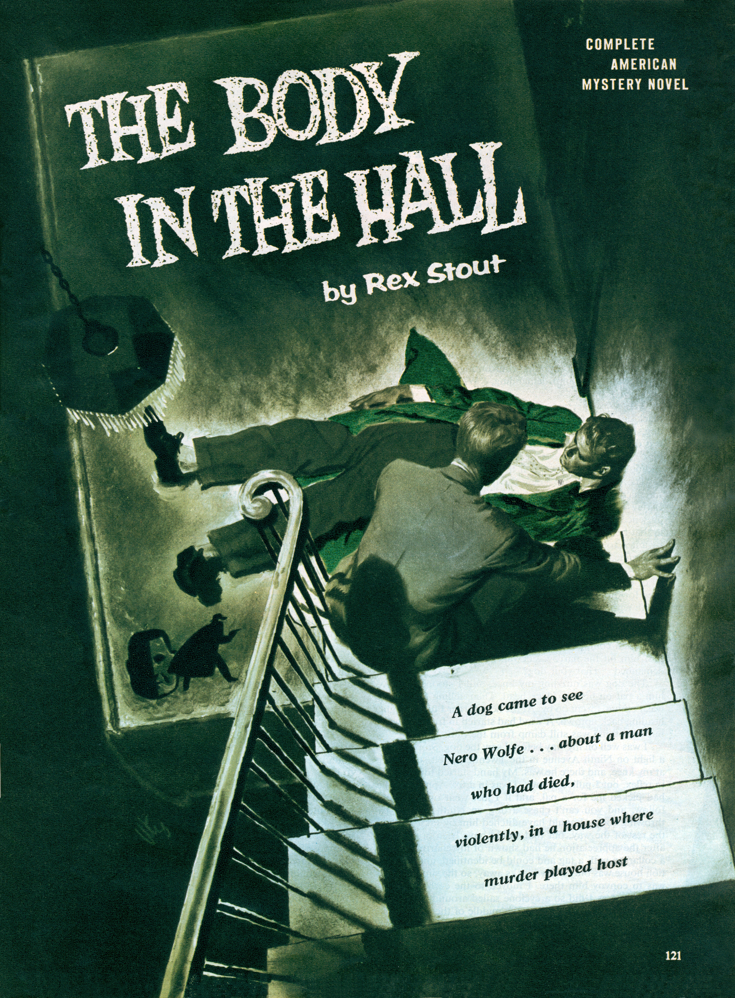 Lead illustration for "The Body in the Hall," a Nero Wolfe story by Rex Stout that first appeared in The American Magazine and was subsequently collected in the book Three Witnesses (1956), titled "Die Like a Dog"